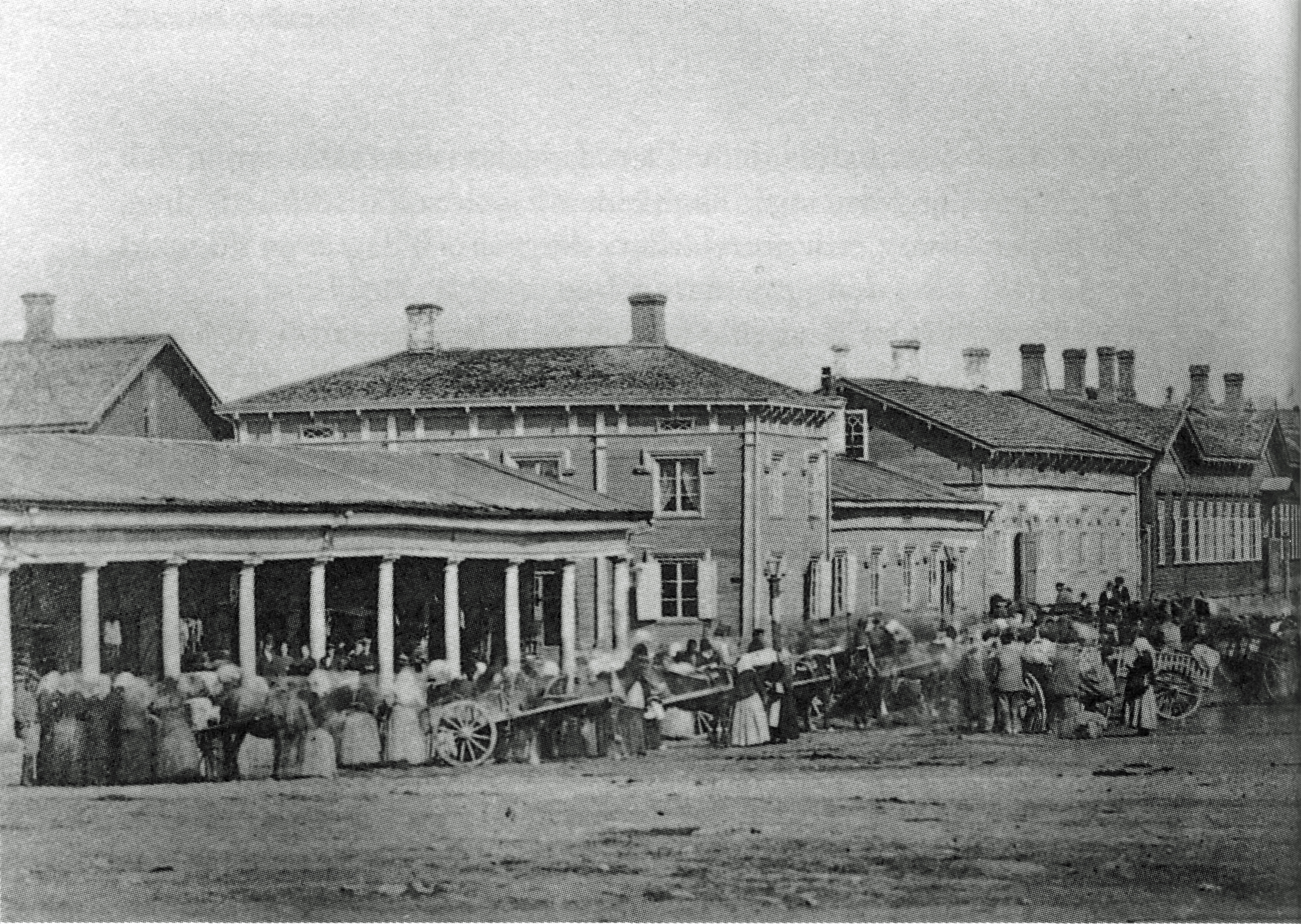 From the market place (later renamed Central Square) in Tampere in the year of famine 1868.